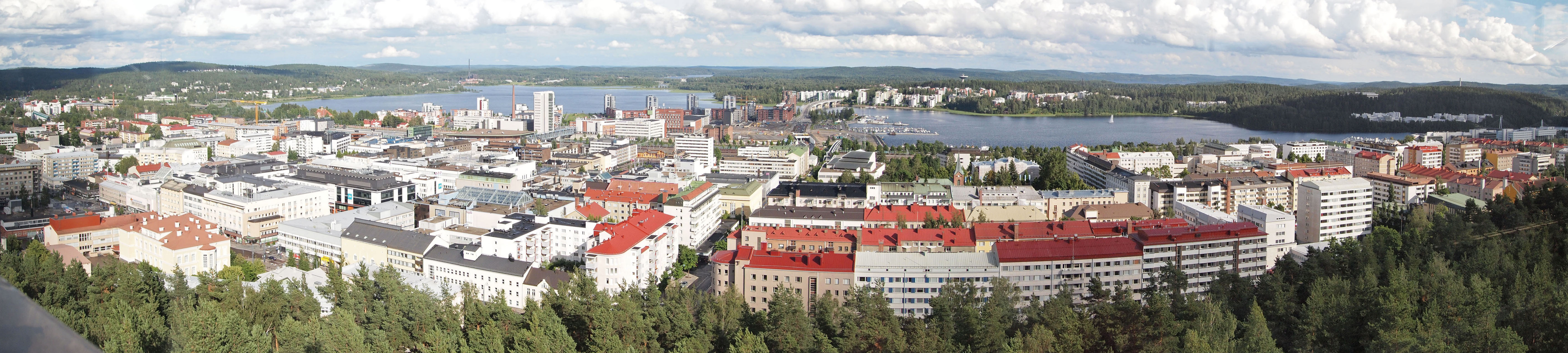 View from Vesilinna to downtown Jyväskylä.